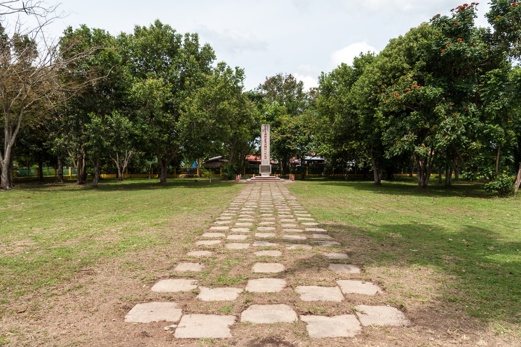 Keningau, Sabah: Cho Huan Lai Memorial